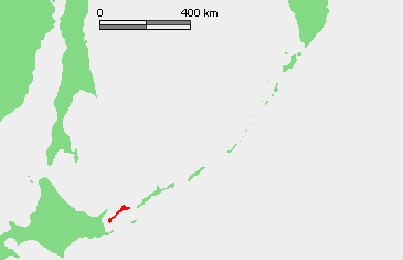 Location of Kunashir Island (Кунашир / 国後島), Kuril Islands, Russia